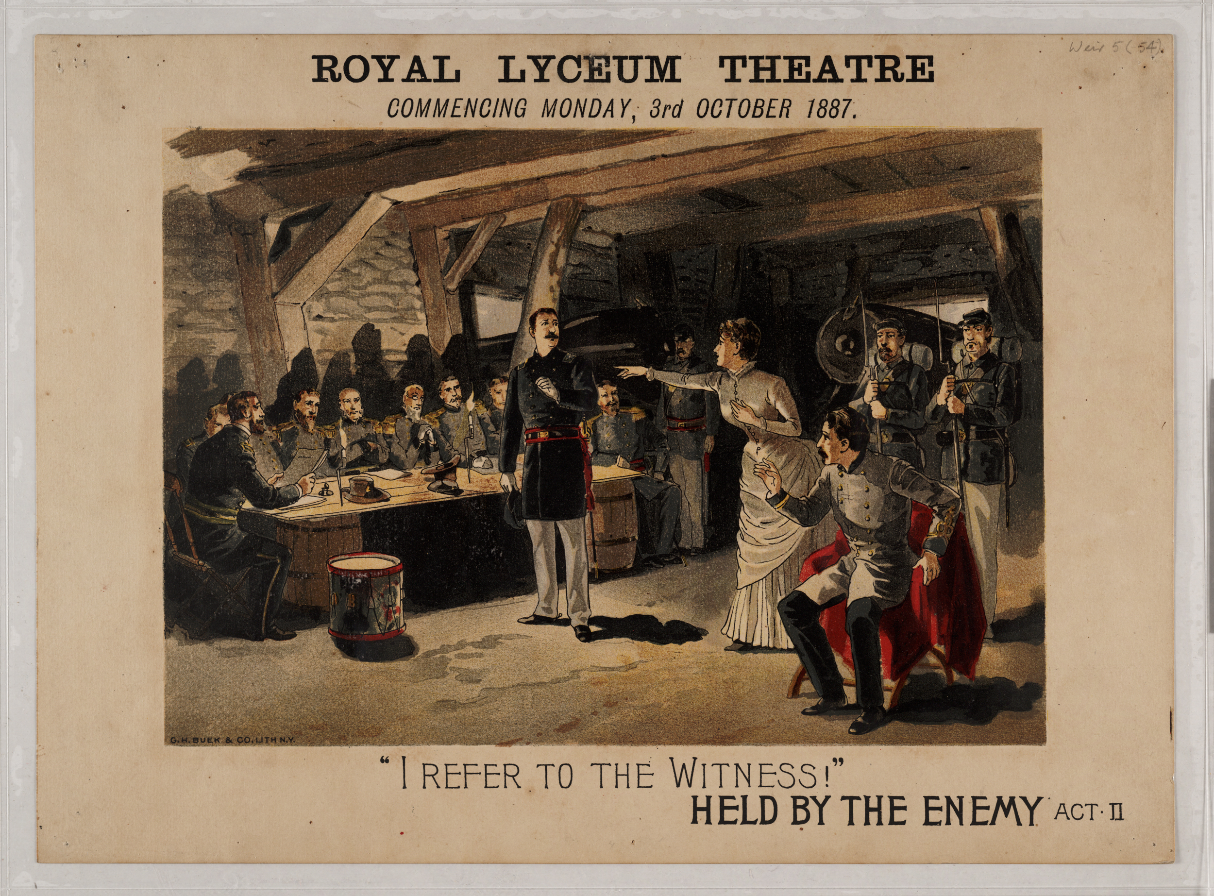 Commencing Monday, 3rd October 1887. 'I refer to the Witness!'. 'Held by the enemy', Act II. Printed by G. H. Buek & Co., Lithographer, N[ew] Y[ork].